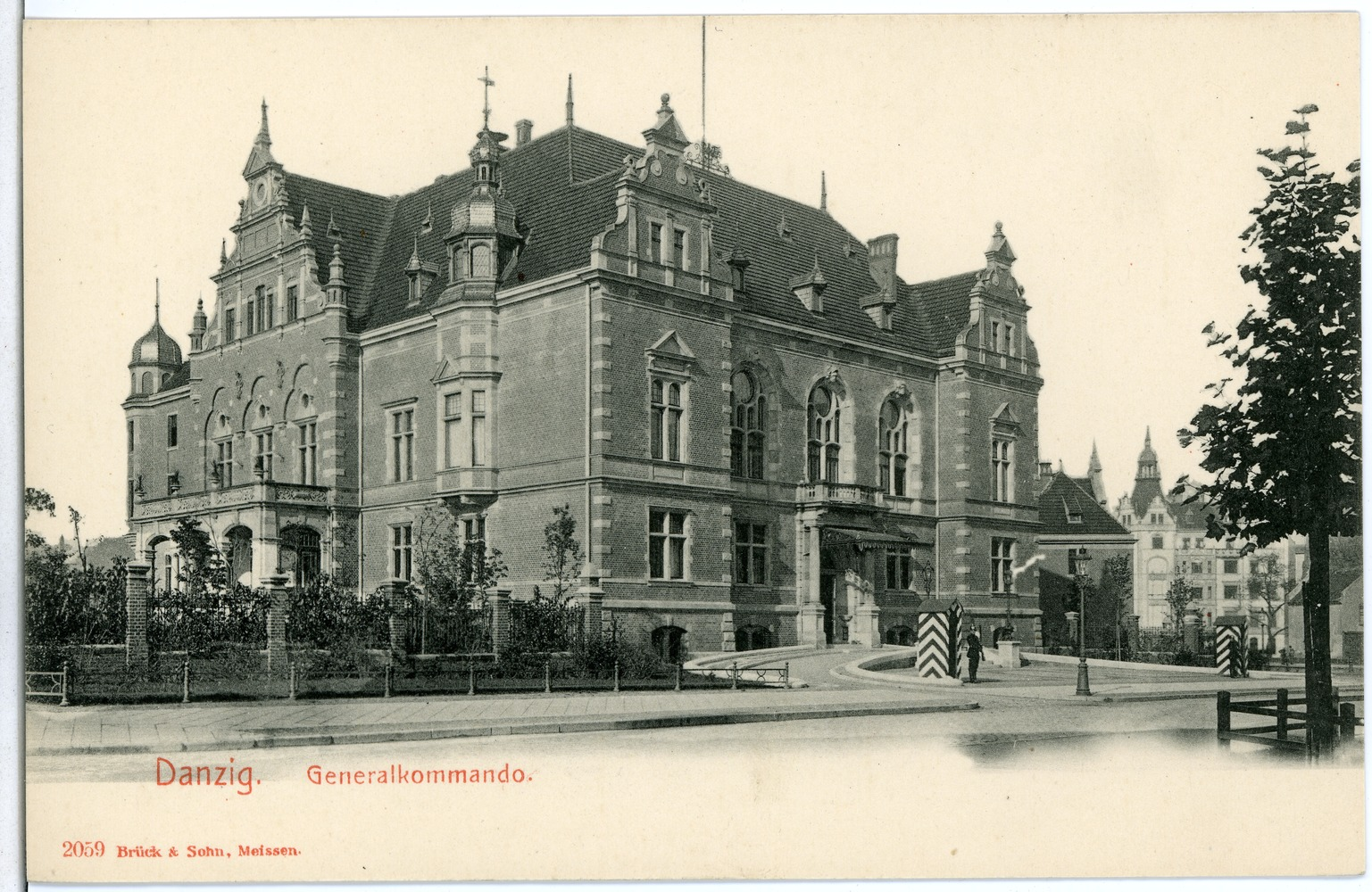 This postcard is from publisher Brück & Sohn in Meißen ( This postcard has a unique number 02059 and is available in a higher resolution at the publisher. This images was uploaded in a cooperation project between Wikipedians and the publisher.